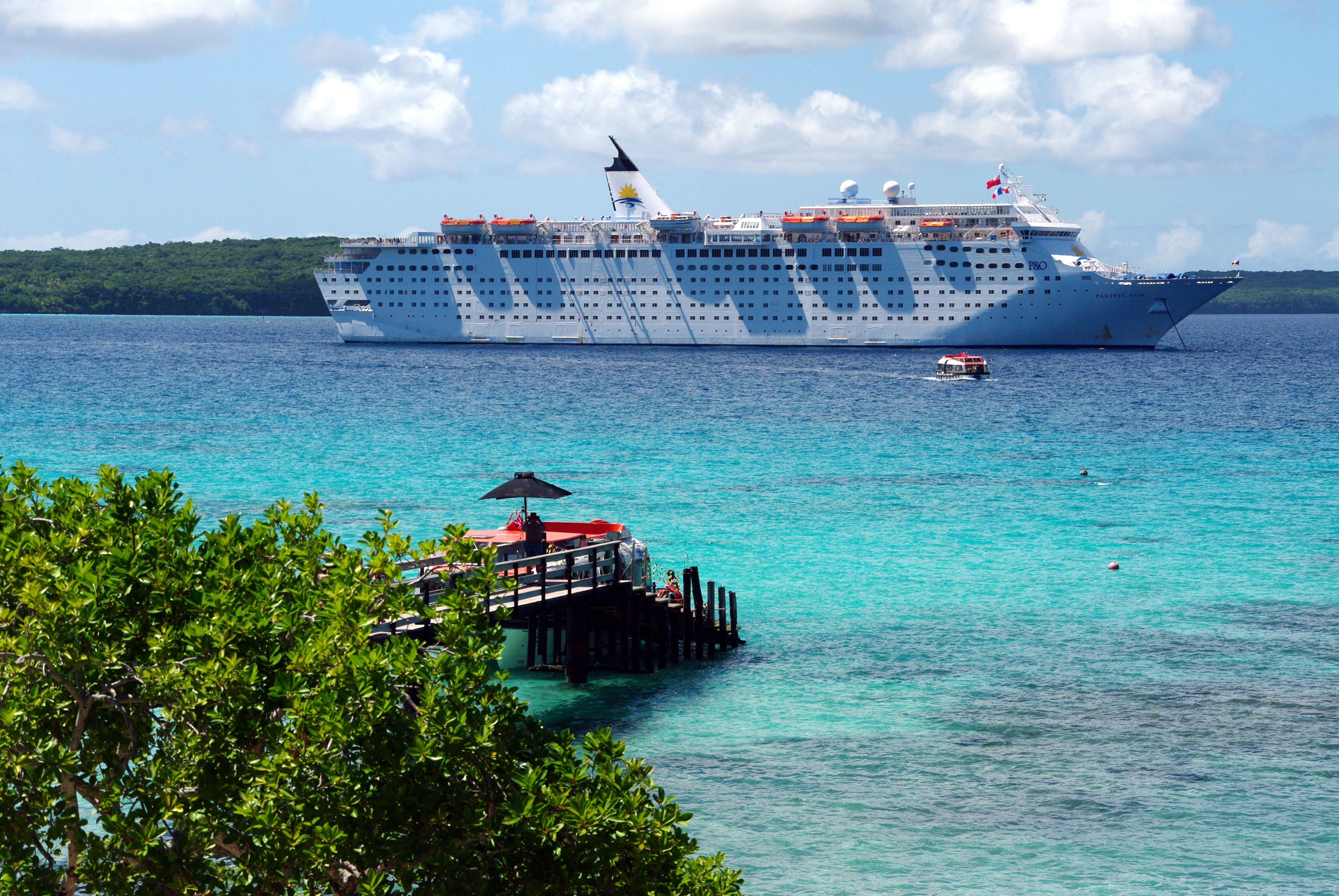 The P&O cruise ship "Pacific Sun" in the Baie du Santal, Easo, Lifou, New Caledonia